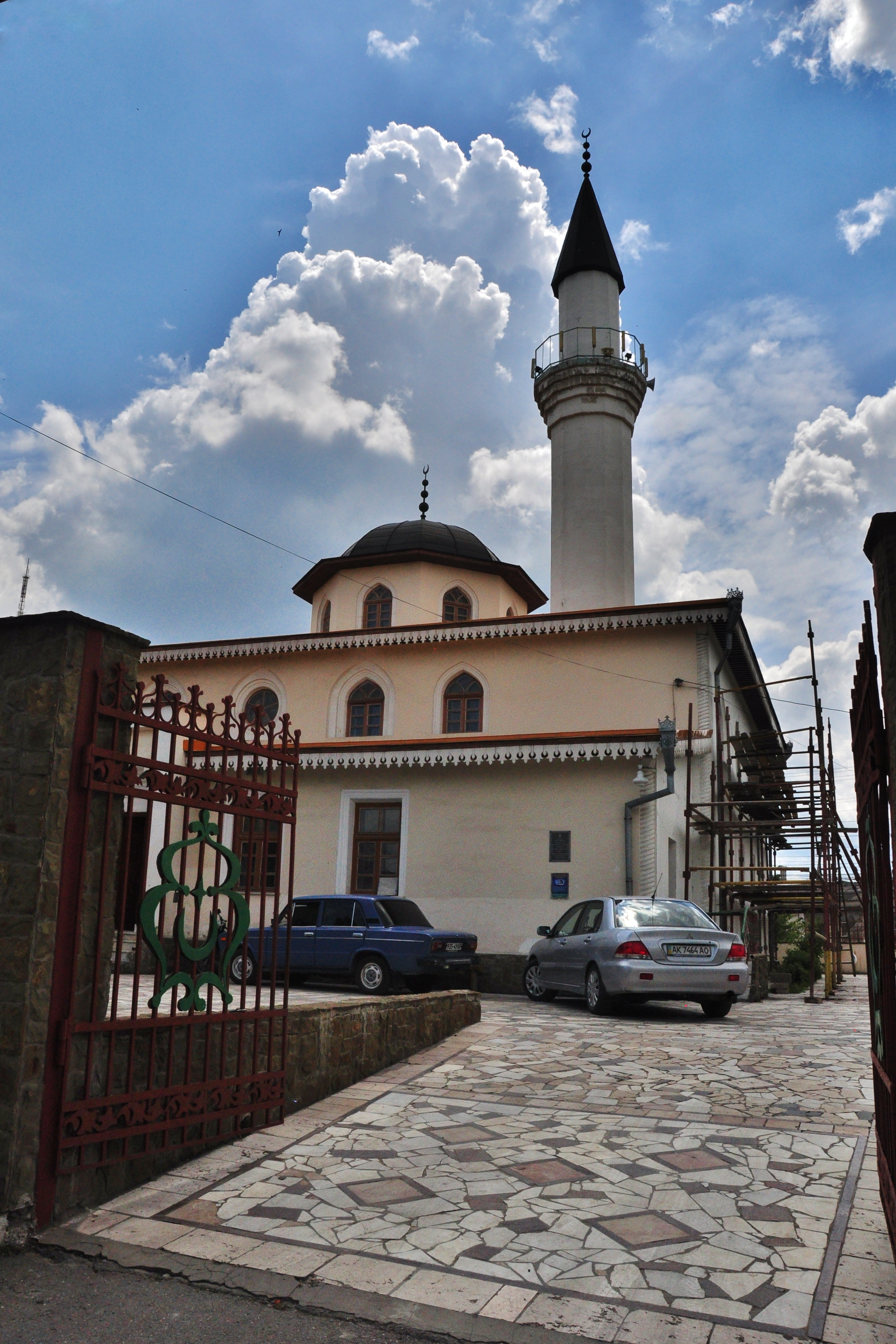 Kebir-Jami Mosque in Simferopol, Crimea, Ukraine